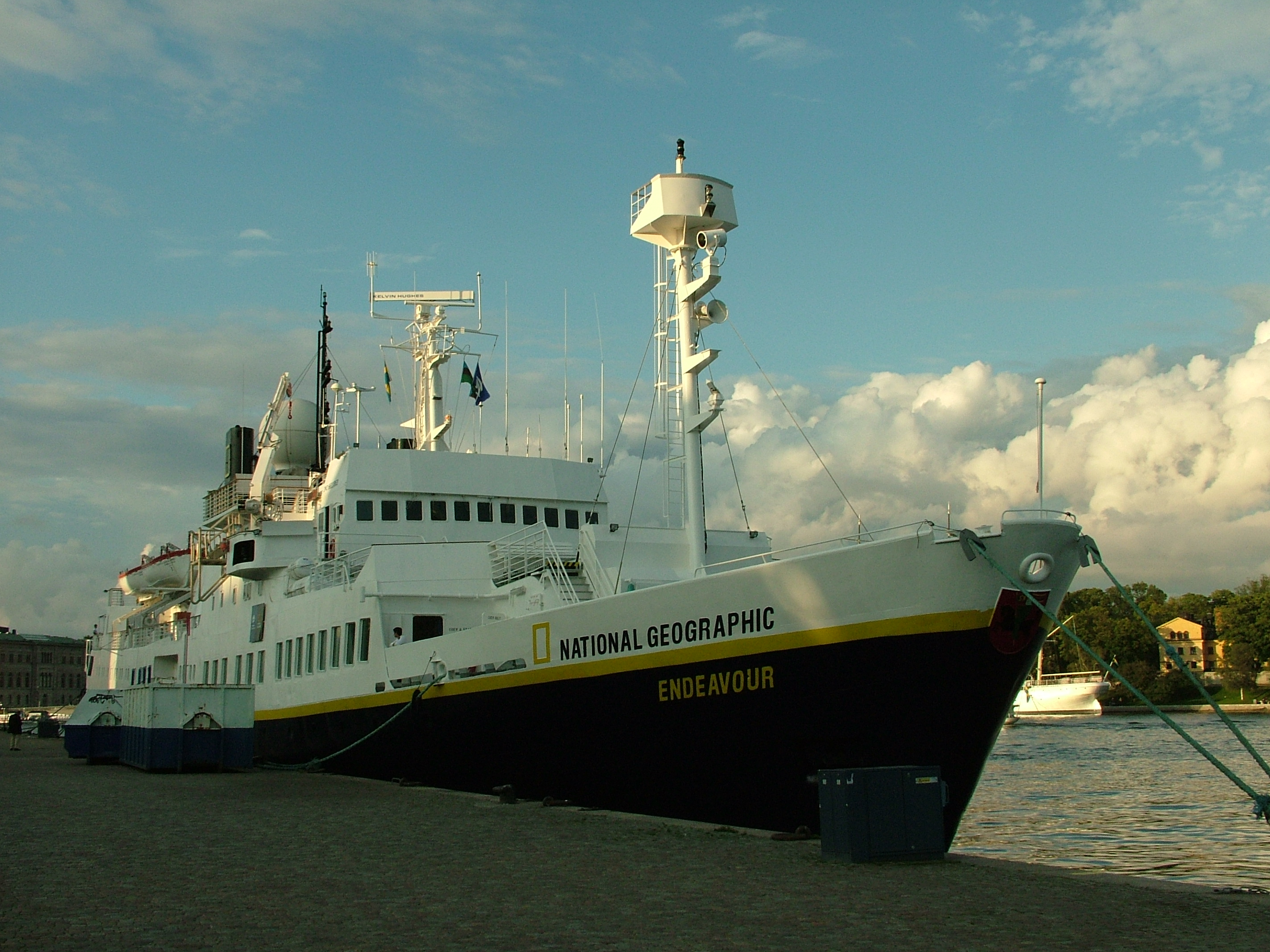 National Geographic Endeavour, photographed in Skeppsbrokajen, harbour of Stockholm